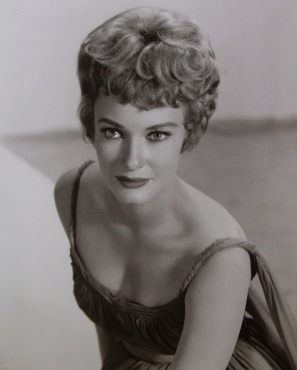 american actress Fay Spain - publicity still (original image cropped : see source)